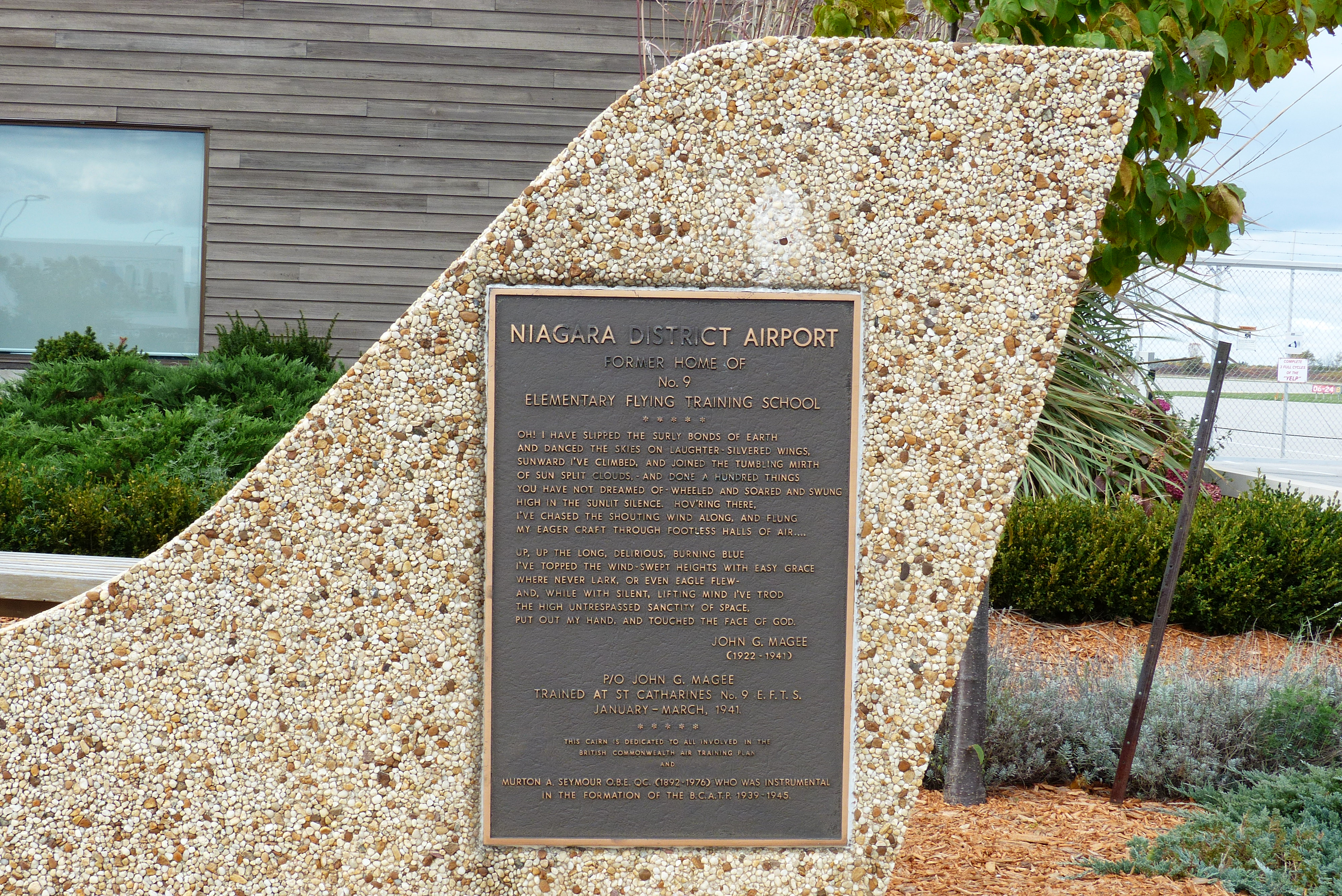 The plaque at St. Catharines/Niagara District Airport that commemorates the British Commonwealth Air Training Plan, the St. Catharines Flying Club, No. 9 Elementary Flying Training School, and J G. Magee, Jr., who trained at No. 9 EFTS and wrote the famous poem "High Flight". The No. 4 Wireless School Flying Squadron is not mentioned on this plaque, No. 4 WS took over the airfield after No. 9 EFTS closed and used it from January 1944 until sometime in 1945.